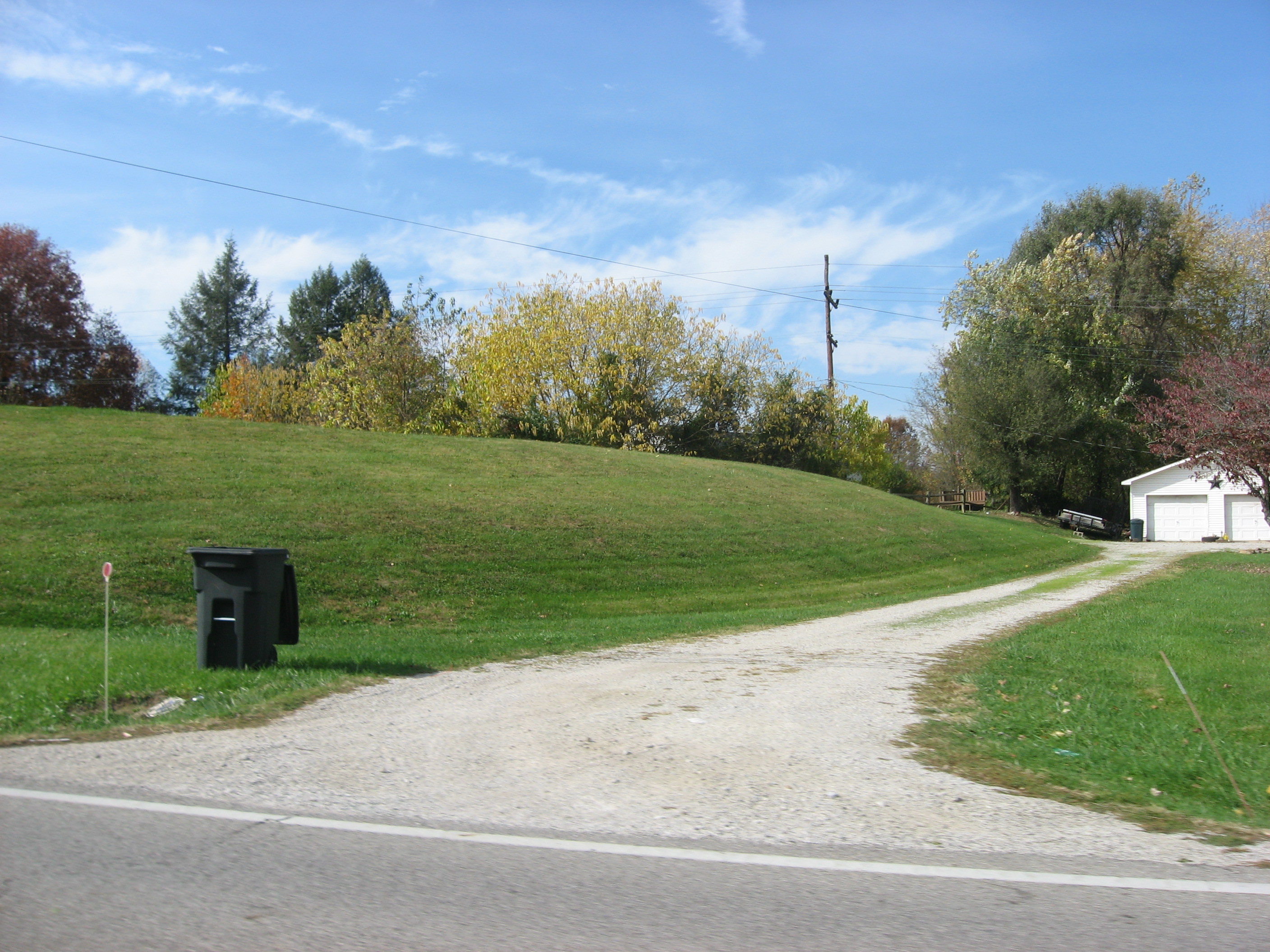 One of the surviving walls of Group A of the Portsmouth Earthworks, located on the northern side of Kentucky Route 8 immediately east of Bentley Lane in South Portsmouth, Kentucky, United States. Built by prehistoric Hopewellian peoples, the earthworks are an archaeological site and listed on the National Register of Historic Places, and they are part of a Register-listed historic district, the Lower Shawneetown Archeological District.